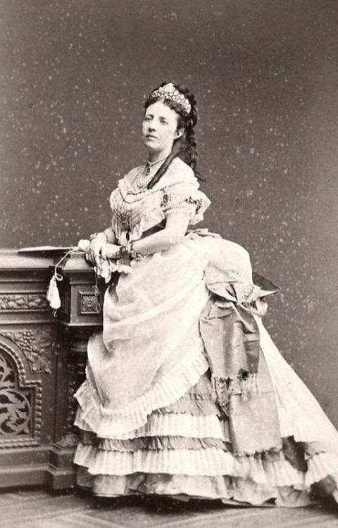 Sophia of Nassau (1836-1913) - Queen of Sweden and Norway.